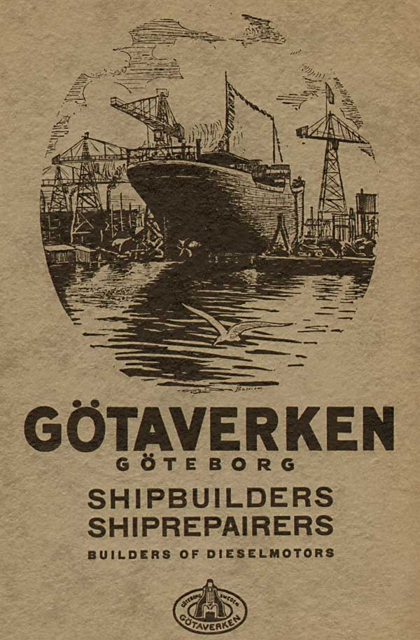 Advertisement for Shipbuilder Gotaverken, Gothenburg